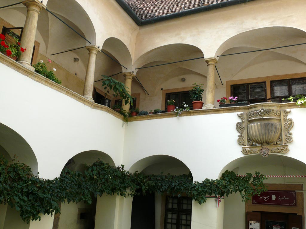 Sopron, Old town: renaissance arcade